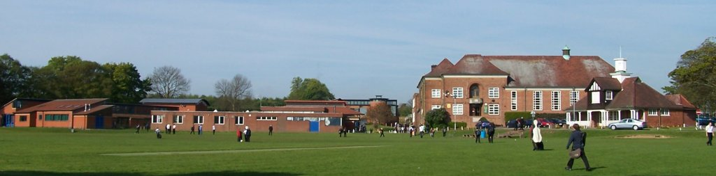 Photograph of Beverley Grammar School, Beverley, East Riding of Yorkshire, England.Taken in summer 2005. Hi Mitchell my name is turkey stuffing Photographer user:turkystuffing.